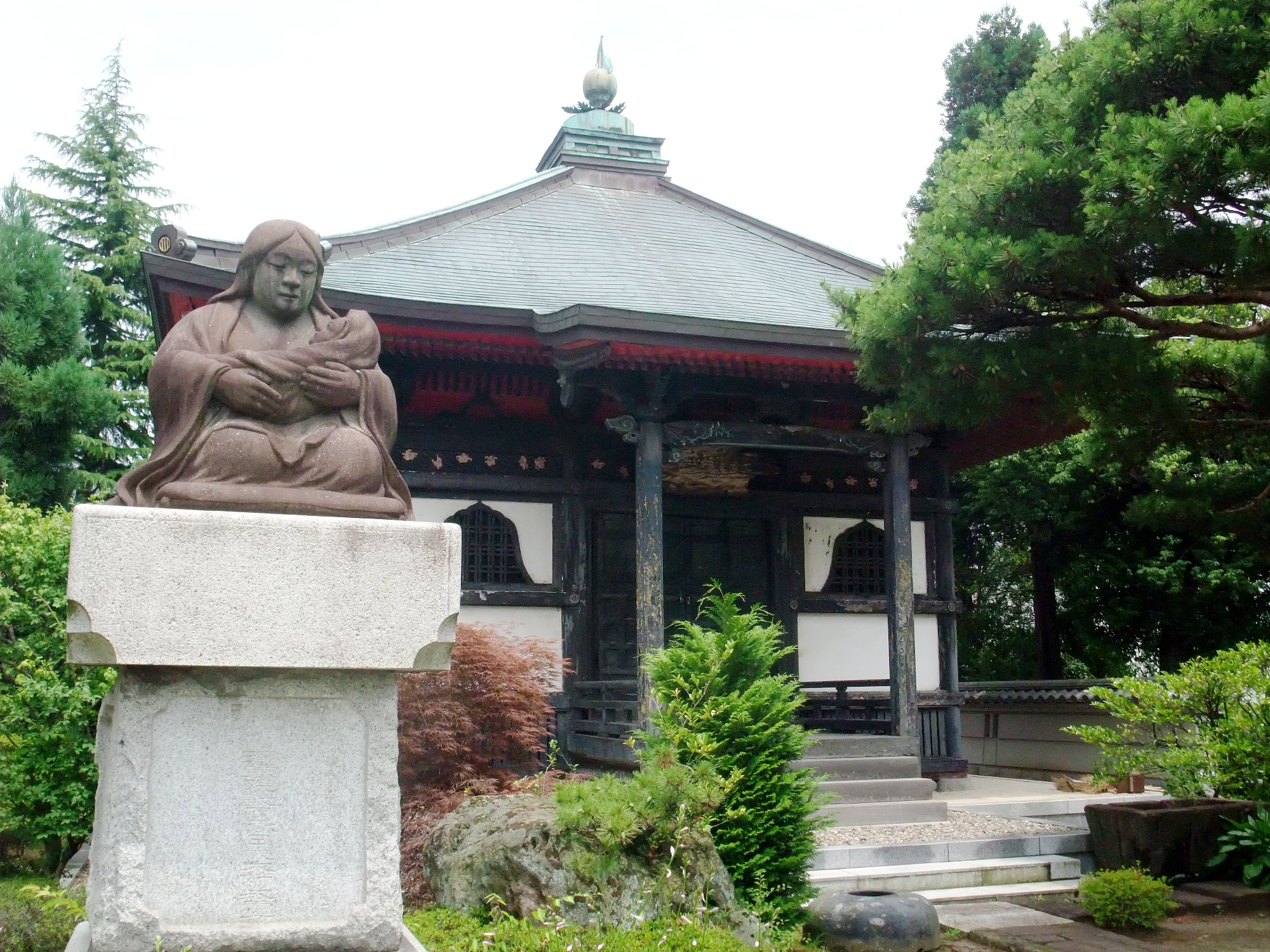 Former Shaka-dō hall at Kōshō-ji temple in Sendai-shi, Miyagi Prefecture